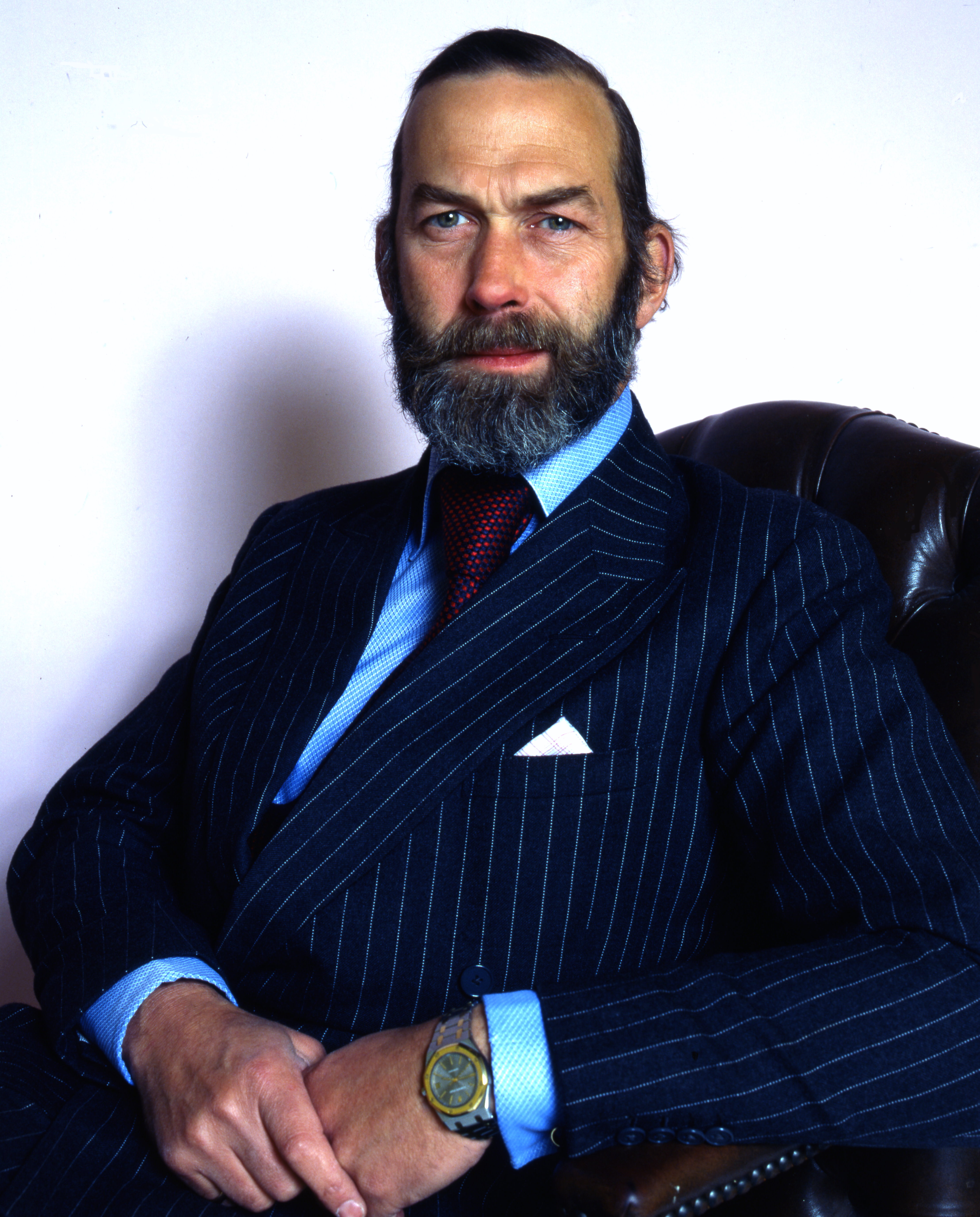 portrait of HRH Prince Michael of Kent